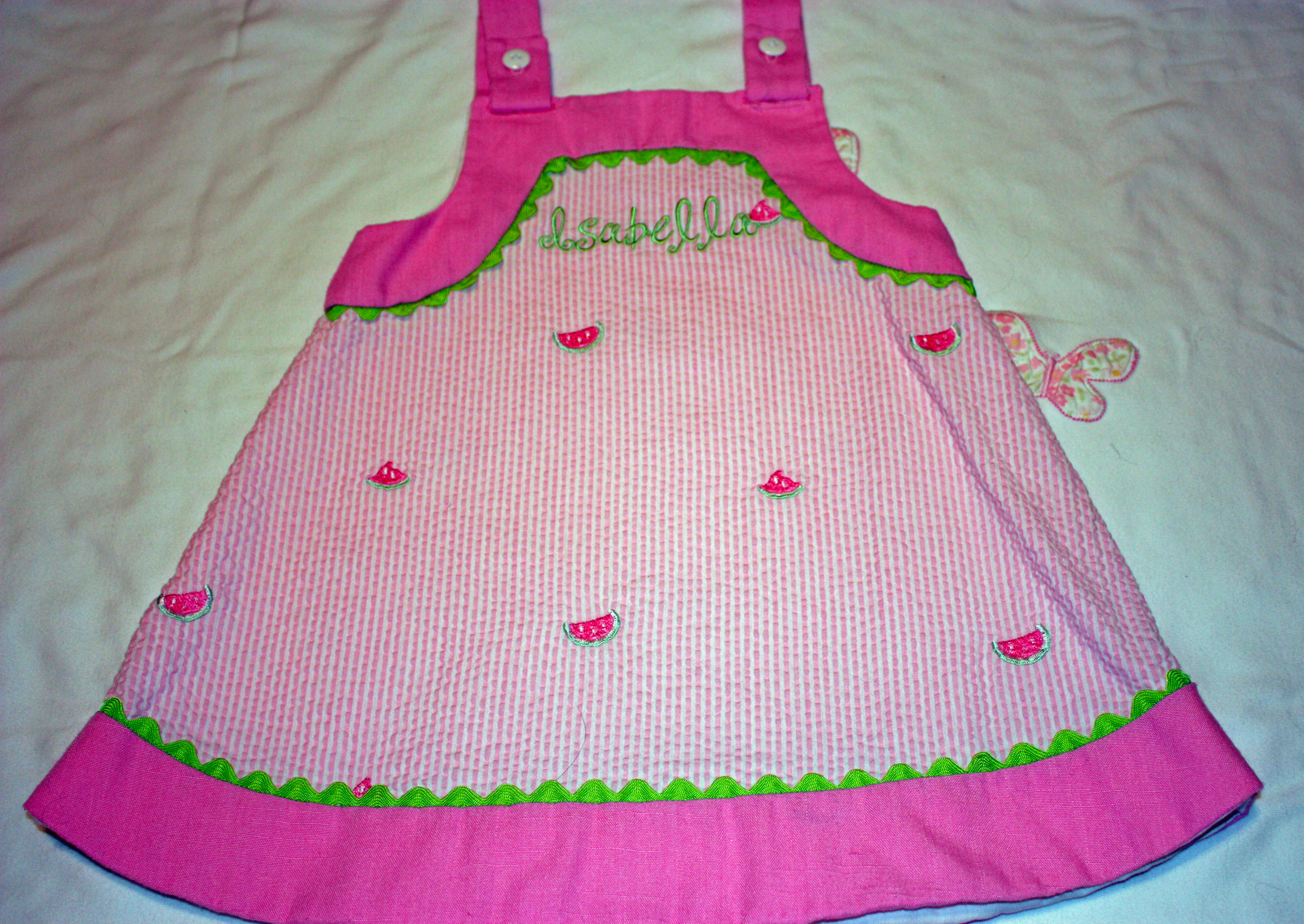 Fully lined A-Line Dress with watermelons embroidered. Trimmed in ric rac and has name Isabella monogrammed across front. Size 3T. Measures 19" in total length. Worn once. EEUC $20 shipped. Dress is from Lolly Wolly Doodle.